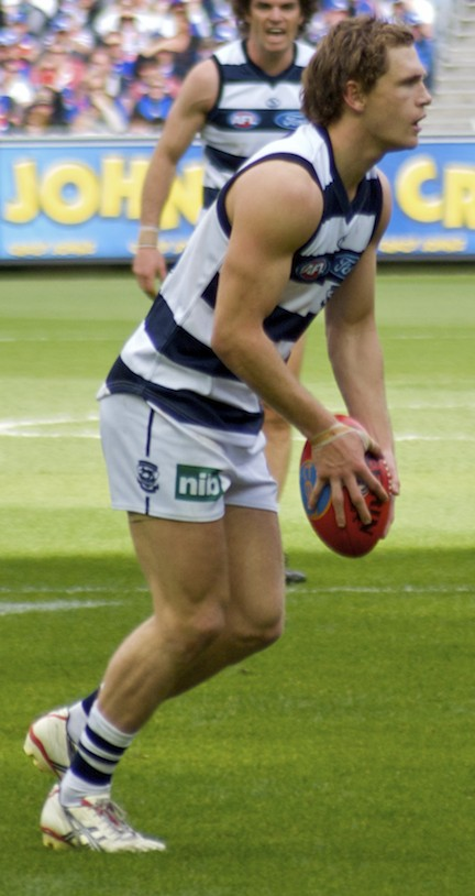 Joel Selwood of the Geelong Football Club prepares to kick the football in the 2009 2nd Qualifying Final against the Western Bulldogs at the MCG